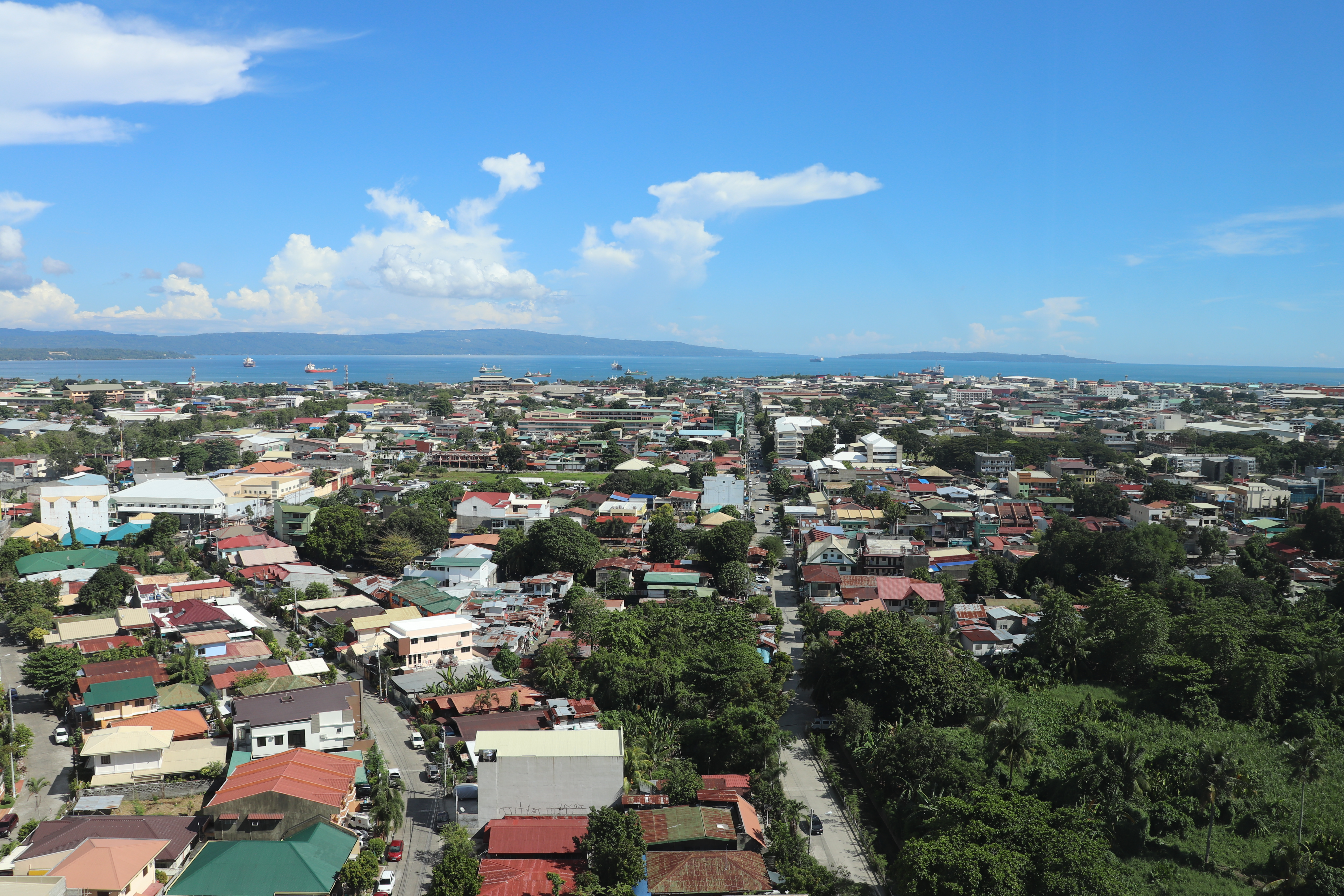 View from the Abreeza Place Tower 1 towards southeast